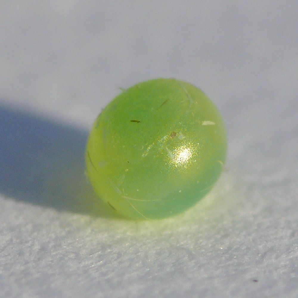 Egg of Elephant Hawk-moths (Deilephila elpenor)